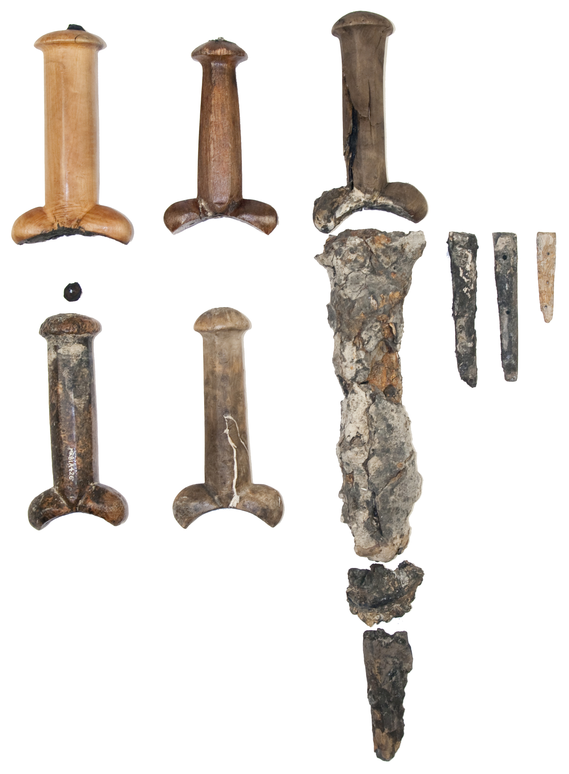 A set of bollock daggers found on board the 16th century carrack Mary Rose, salvaged in 1982.